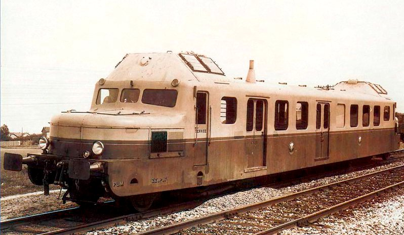 Railcar Decauville PLM ZZ P 7 "pig nose" in 1936, future SNCF ZZDC 2007 in 1938, XDC 2007 in 1948 then X 52007 in 1953.